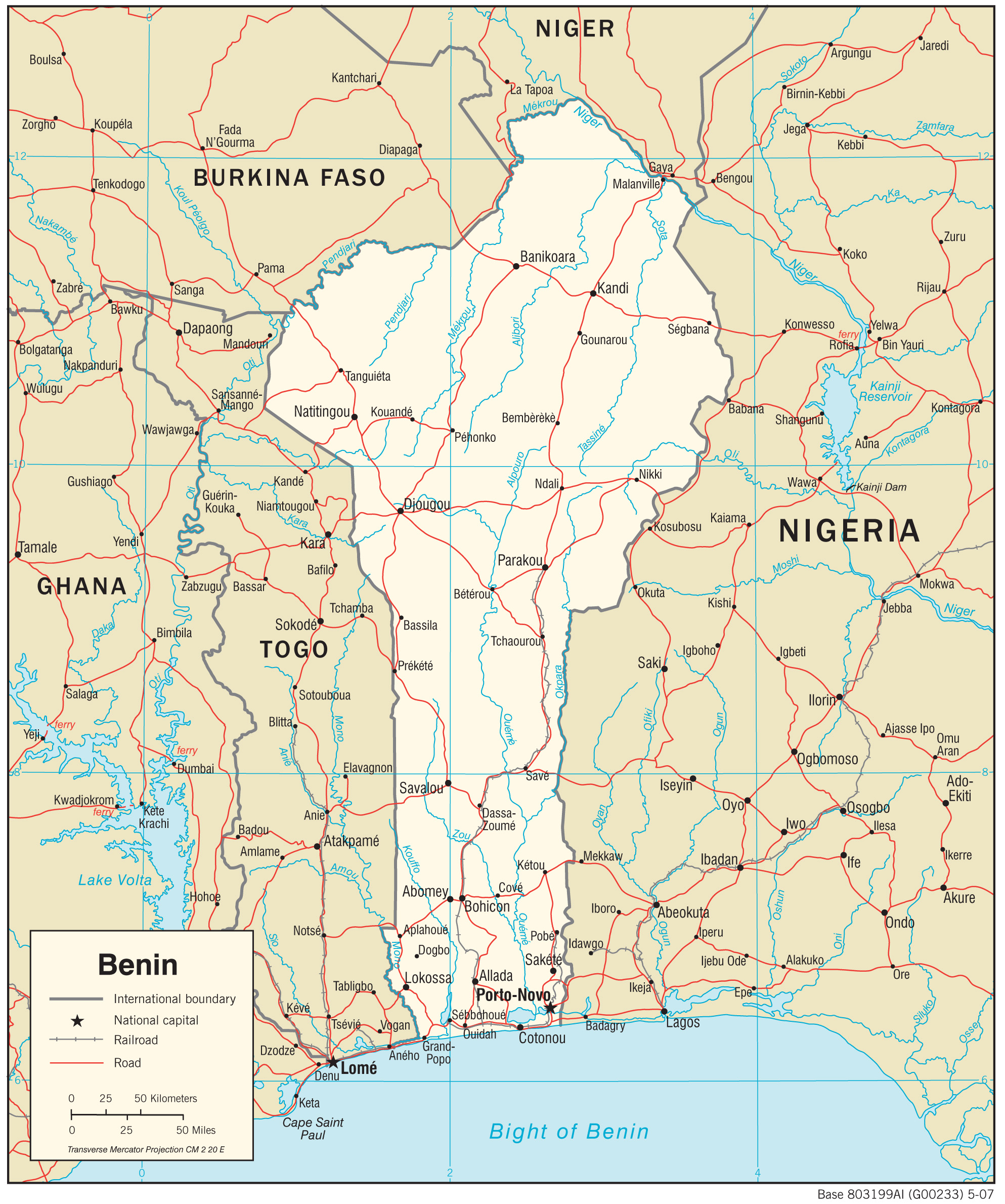 Transport system in Benin, 2007.